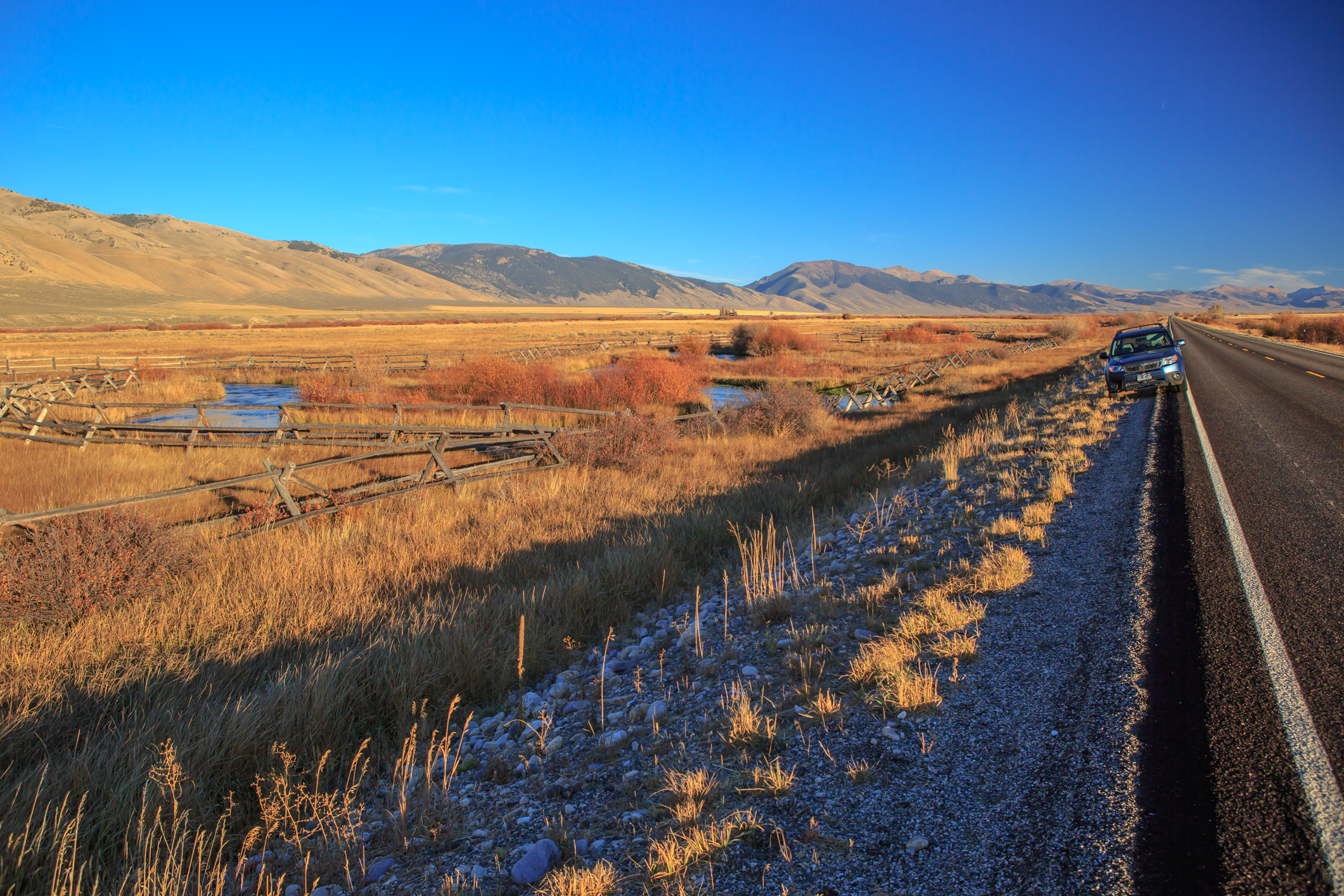 Lemhi Valley shots, about 3 miles northwest of Leadore, Idaho along Idaho State Highway 28